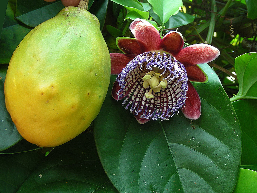 Native to the Amazon region, where it is known as Ouvaca. Photo from a garden in Leticia, amazonian Colombia. In context at